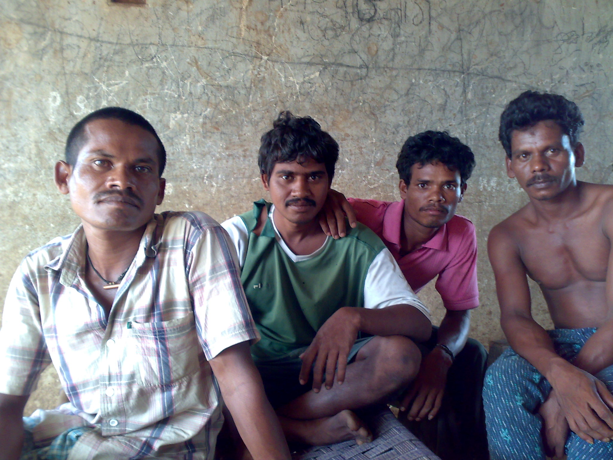 The men who feature in this photograph belong to the hunter gatherer tribe which is called as Koya or Koi community. As they started coming into contact with the other forward communities, there are many changes in their life style. They speak a language called Koya which does not have any script and has very limited number of words. To cater to their communication requirements of the modern age they borrowed many Telugu words and even use Telugu script to write in their language.